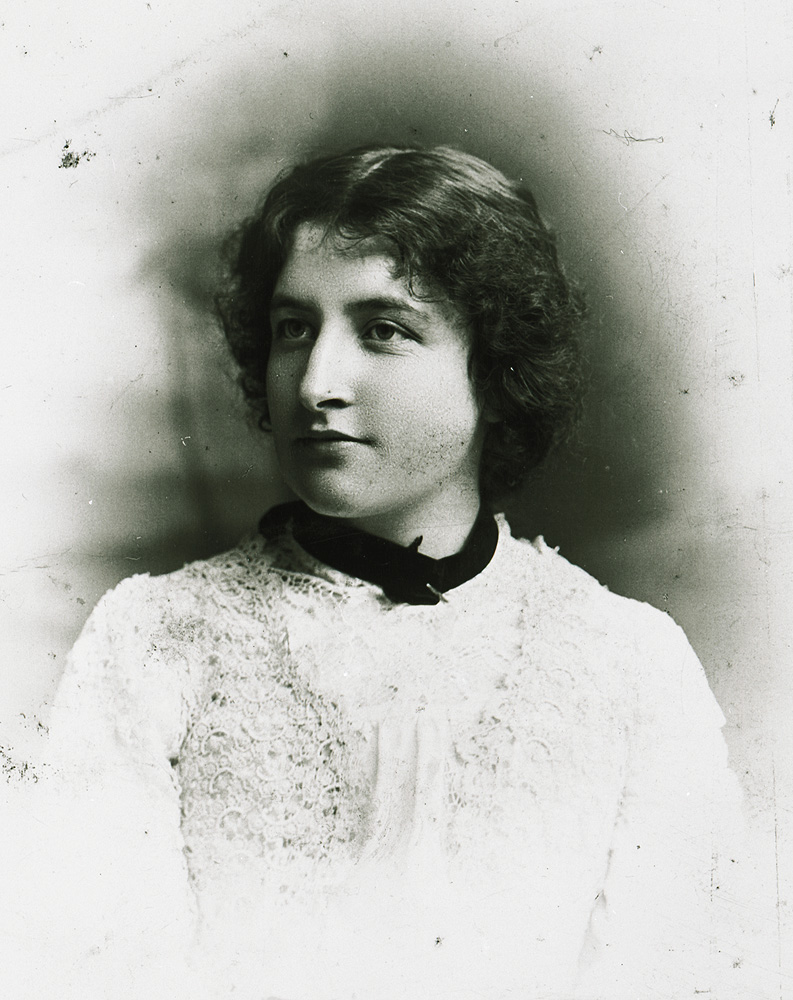 Margaret McPhun Glasgow suffragette. Guess 1900 as date